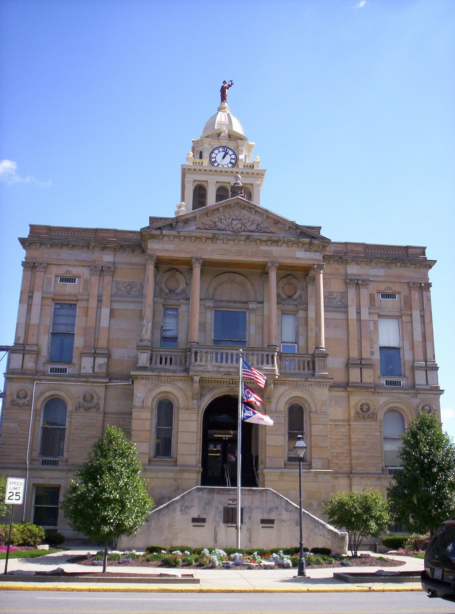 Front of the Marion County Courthouse in downtown Marion, Ohio, United States. Built in 1884, the courthouse is listed on the National Register of Historic Places.